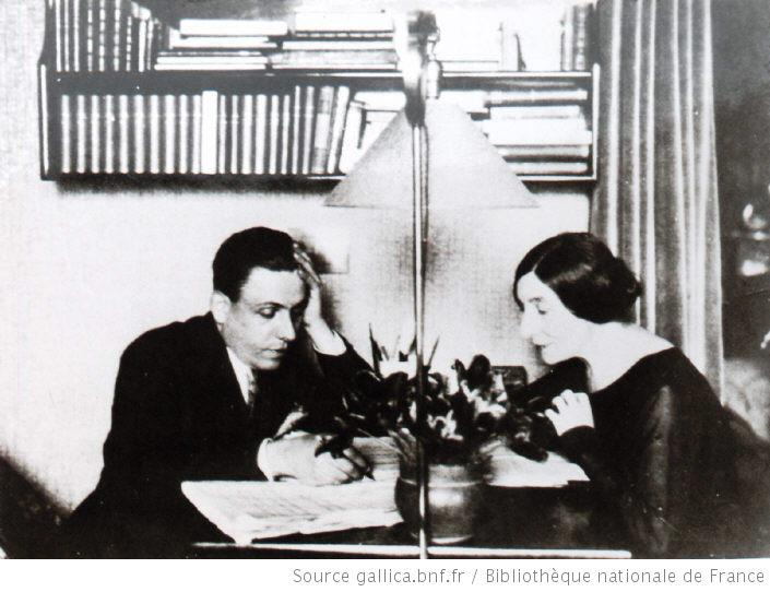 Wanda Landowska (1879-1959) and Françis Poulenc